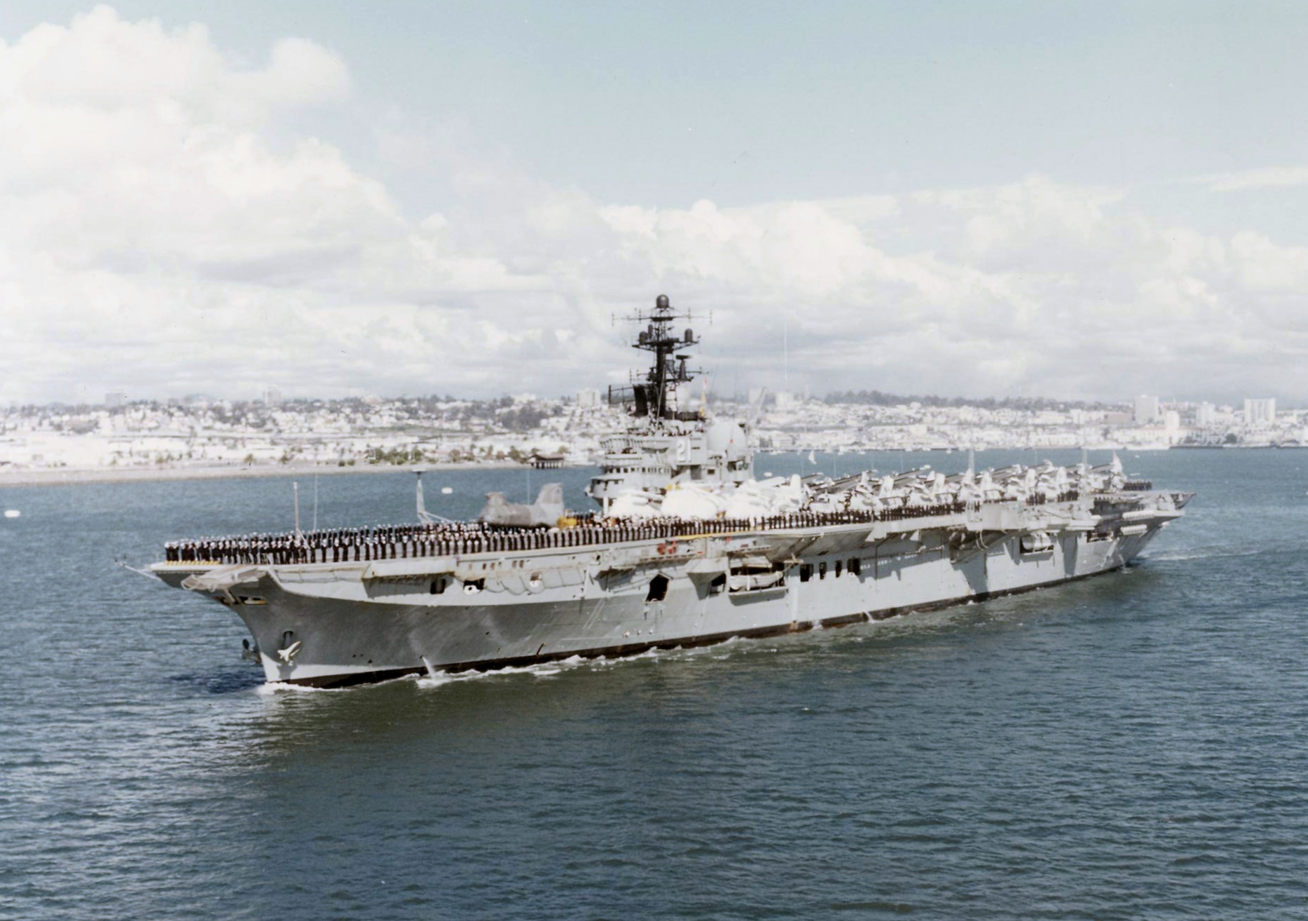 The Australian carrier HMAS Melbourne (R21) steams in San Diego Harbor, California (USA), in 1977.